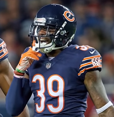 Eddie Jackson in 2018